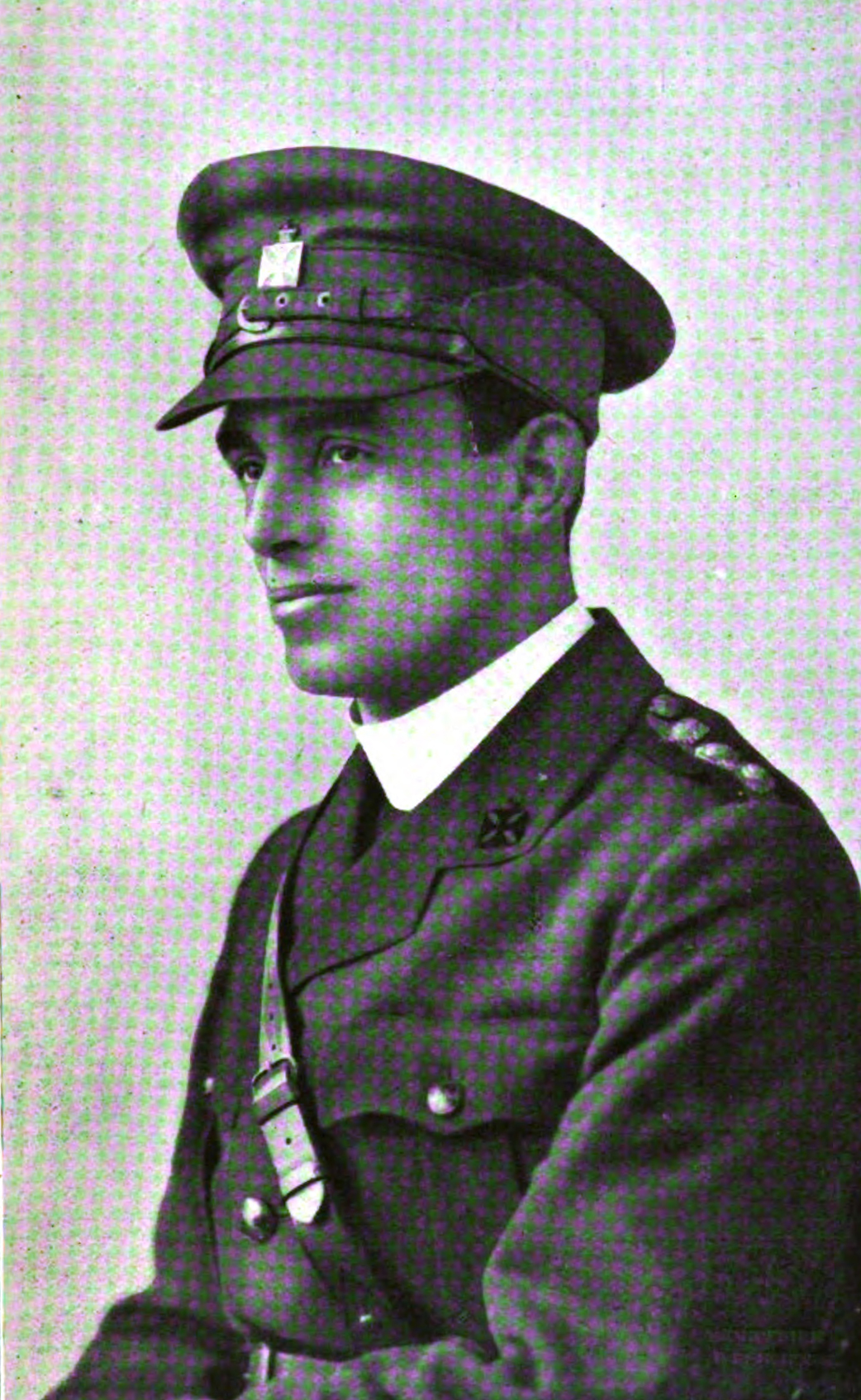 Image of Geoffrey Anketell Studdert Kennedy (G. A. Studdert Kennedy) from The Bookman Special Christmas Number (December 1918)